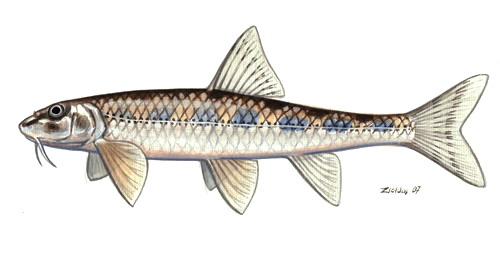 Kessler's Gudgeon (Romanogobio kessleri)